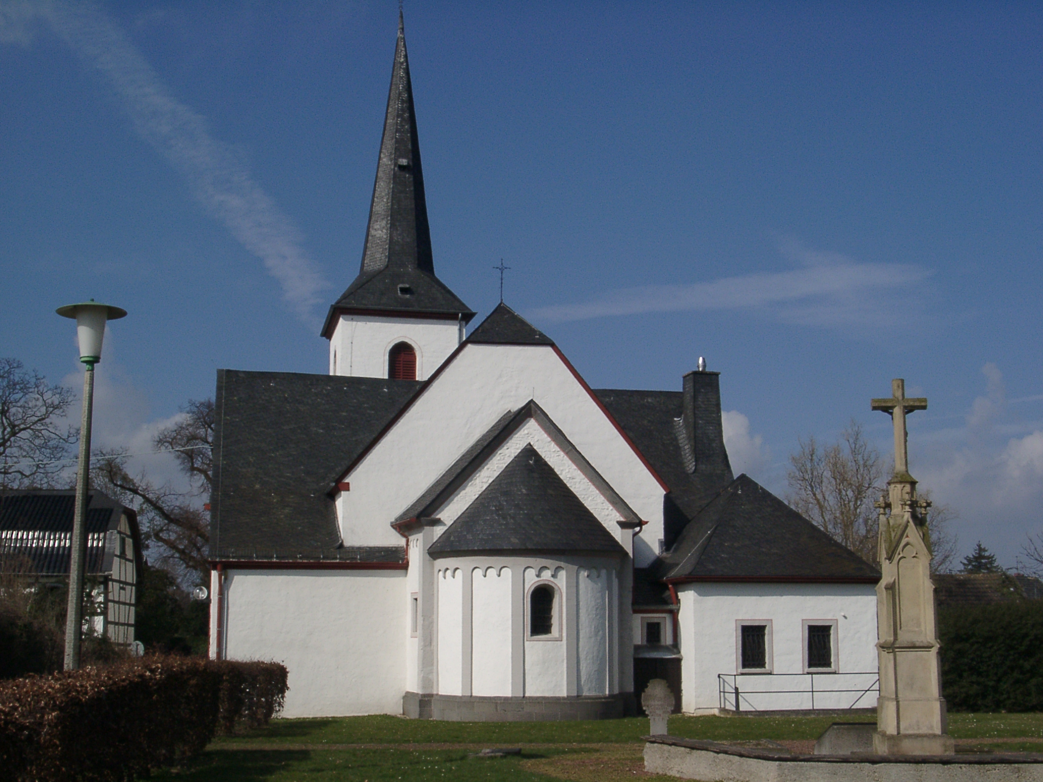 Church "Saint Giles" in Oberdrees (Rheinbach)